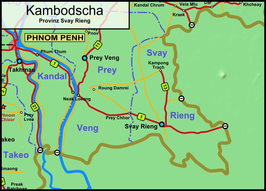 Map of the Cambodian province Svay Rieng